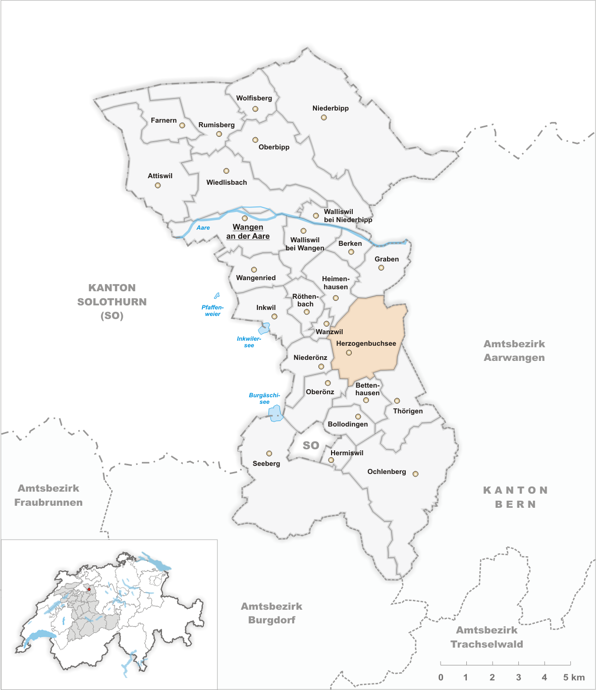 Municipality Herzogenbuchsee until 2007